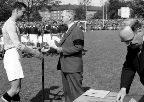 Team captain Sture Mårtensson (Malmö FF) receives the gold medal